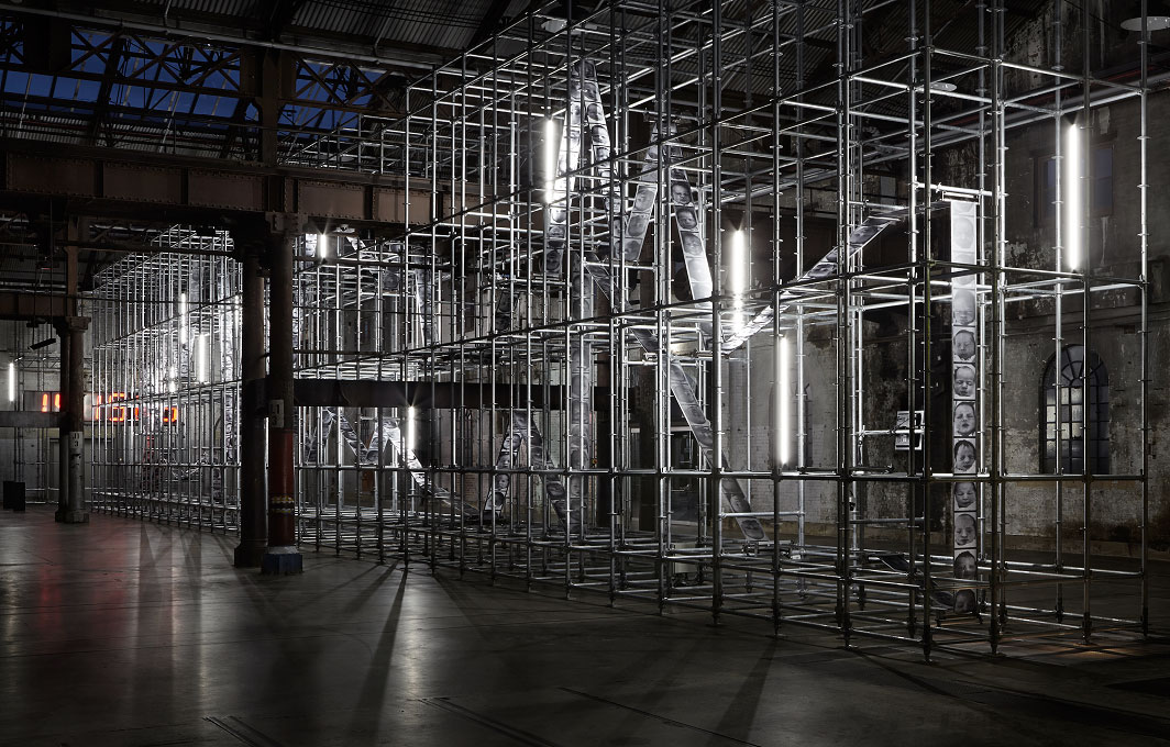 Christian Boltanski, Chance (detail), 2014, Carriageworks, Sydney. Image: Zan Wimberley